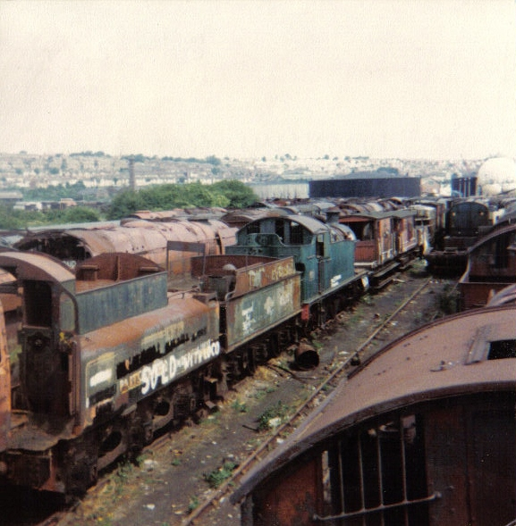 Woodham, Barry, Vale of Glamorgan, Wales